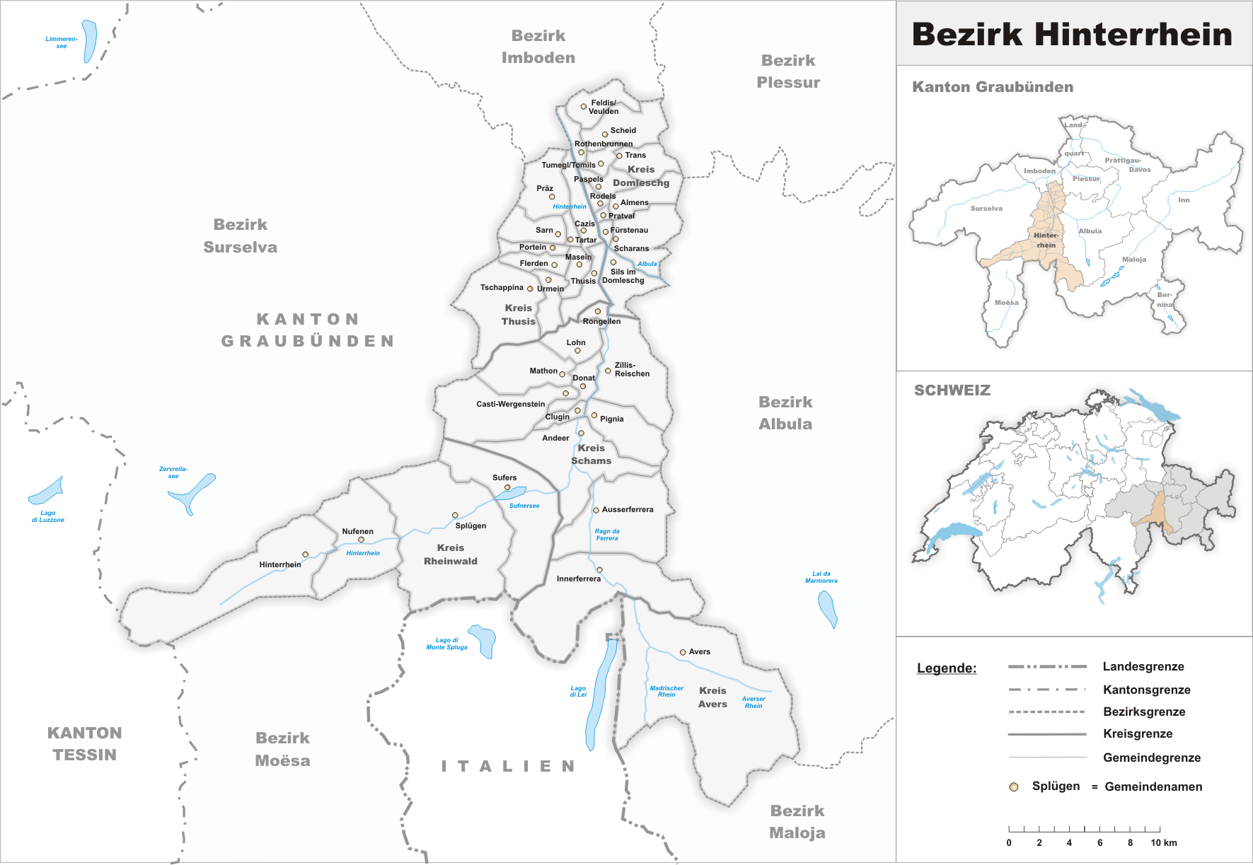 Municipalities in the district of Hinterrhein until 2007